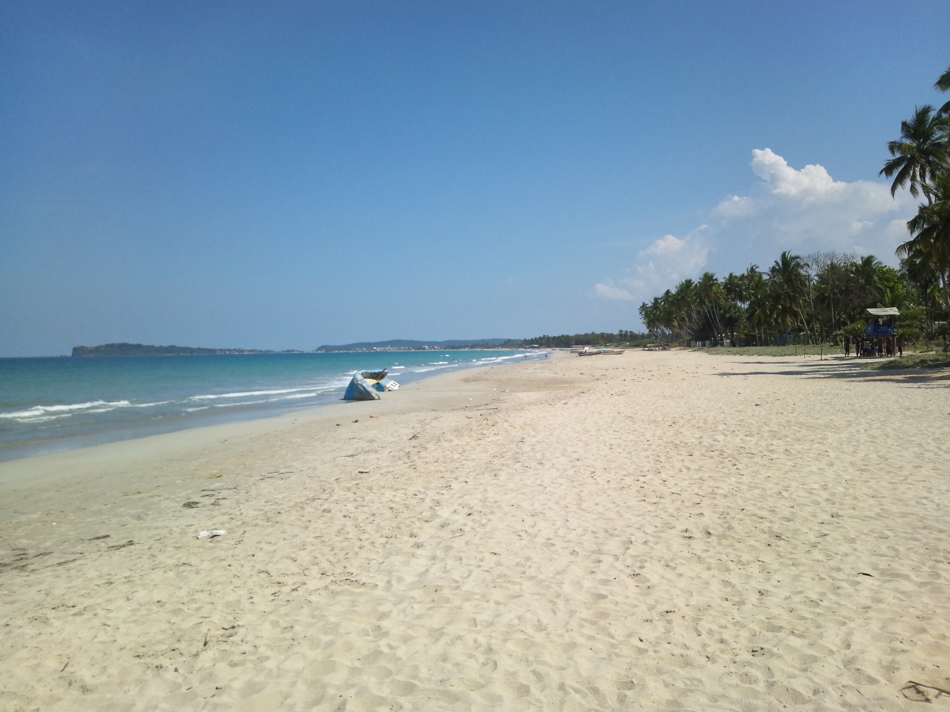 Uppveli Beach in Trincomalee, Sri Lanka.